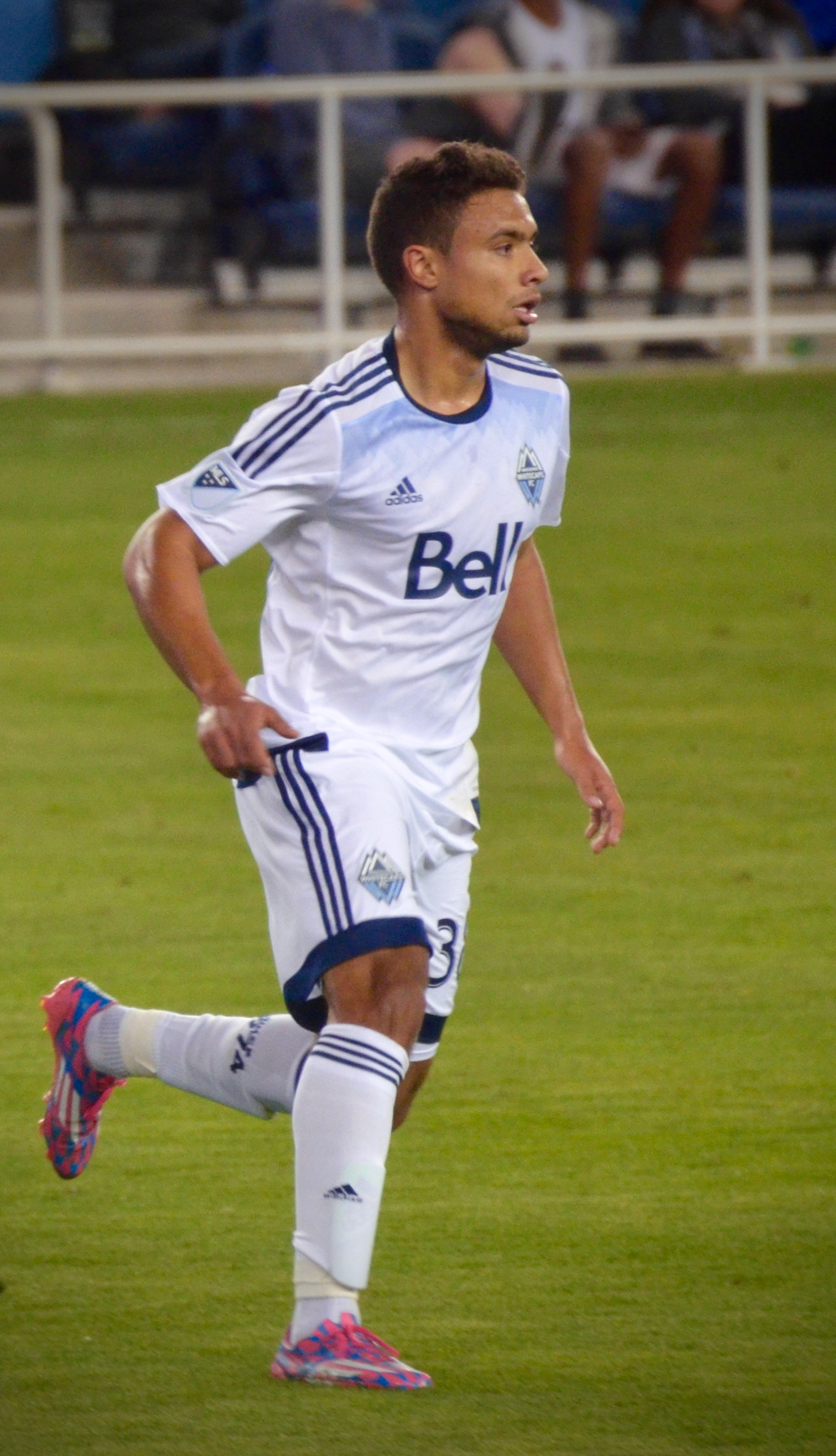 Kianz Froese playing for the Vancouver Whitecaps vs San Jose Earthquakes at Avaya Stadium 11 April 2015